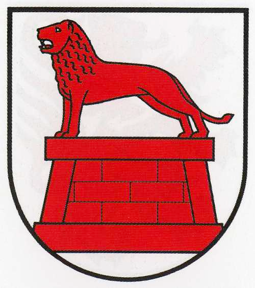 Coat of Arms of Sack, Part of Braunschweig